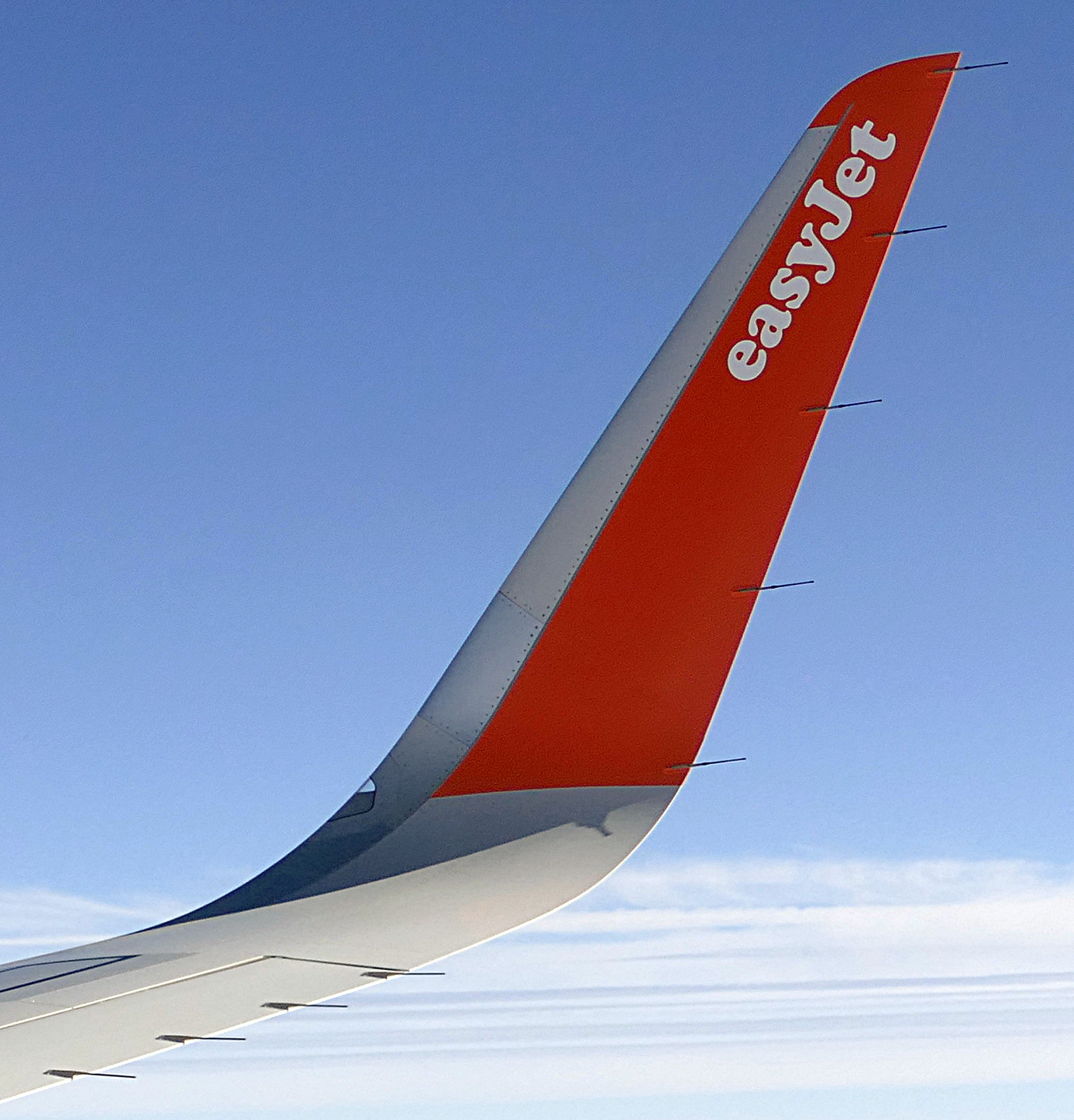 Airbus A320 Sharklet